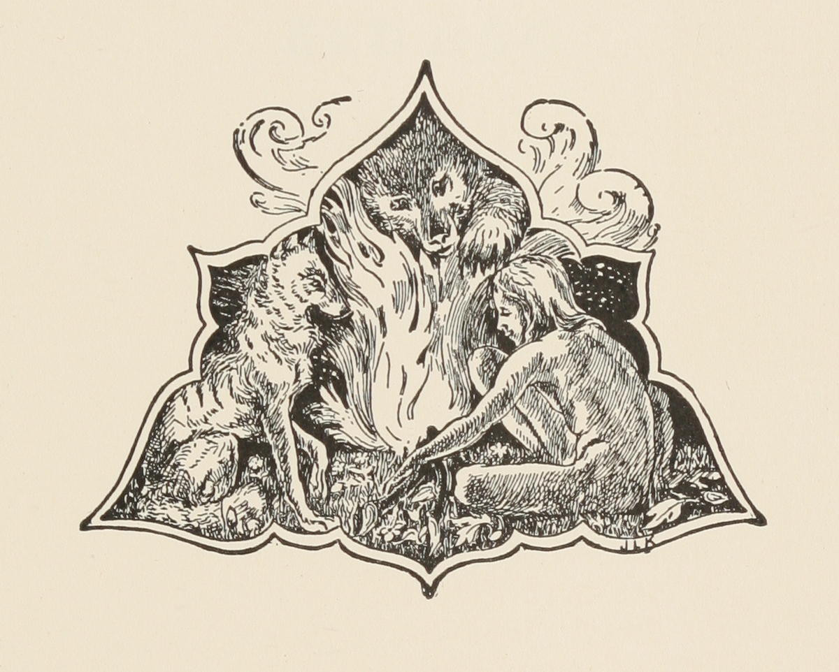 Illustration of Mowgli, Baloo and a wolf.